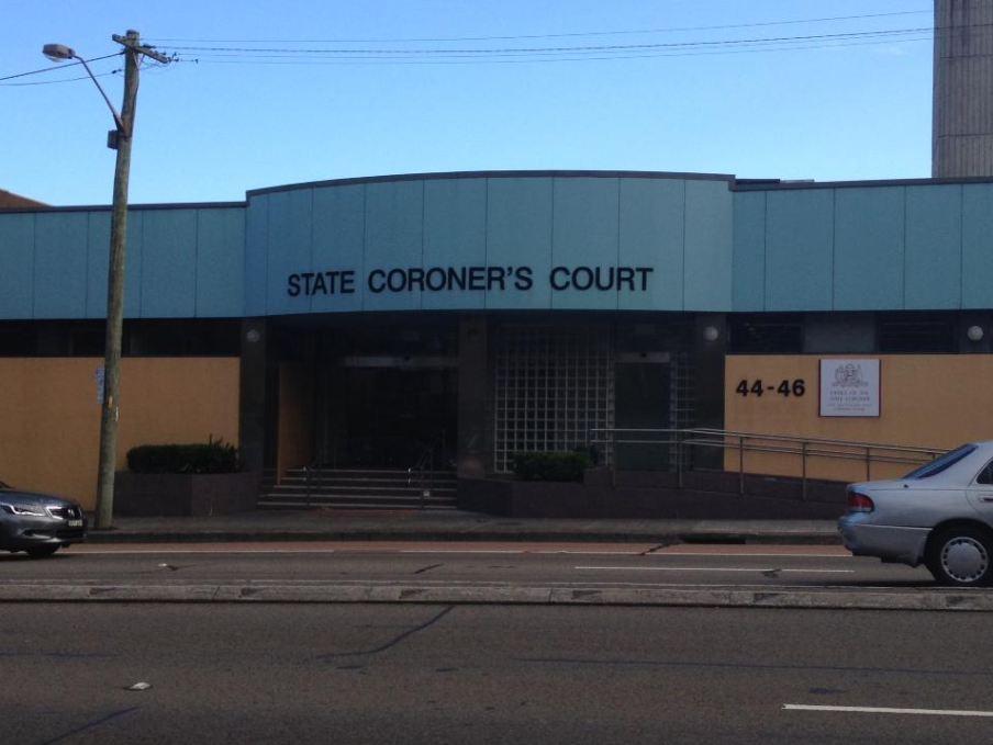 This photograph illustrates the New South Wales Coroner's Court in the inner-city Sydney suburb of Glebe, New South Wales, Australia.